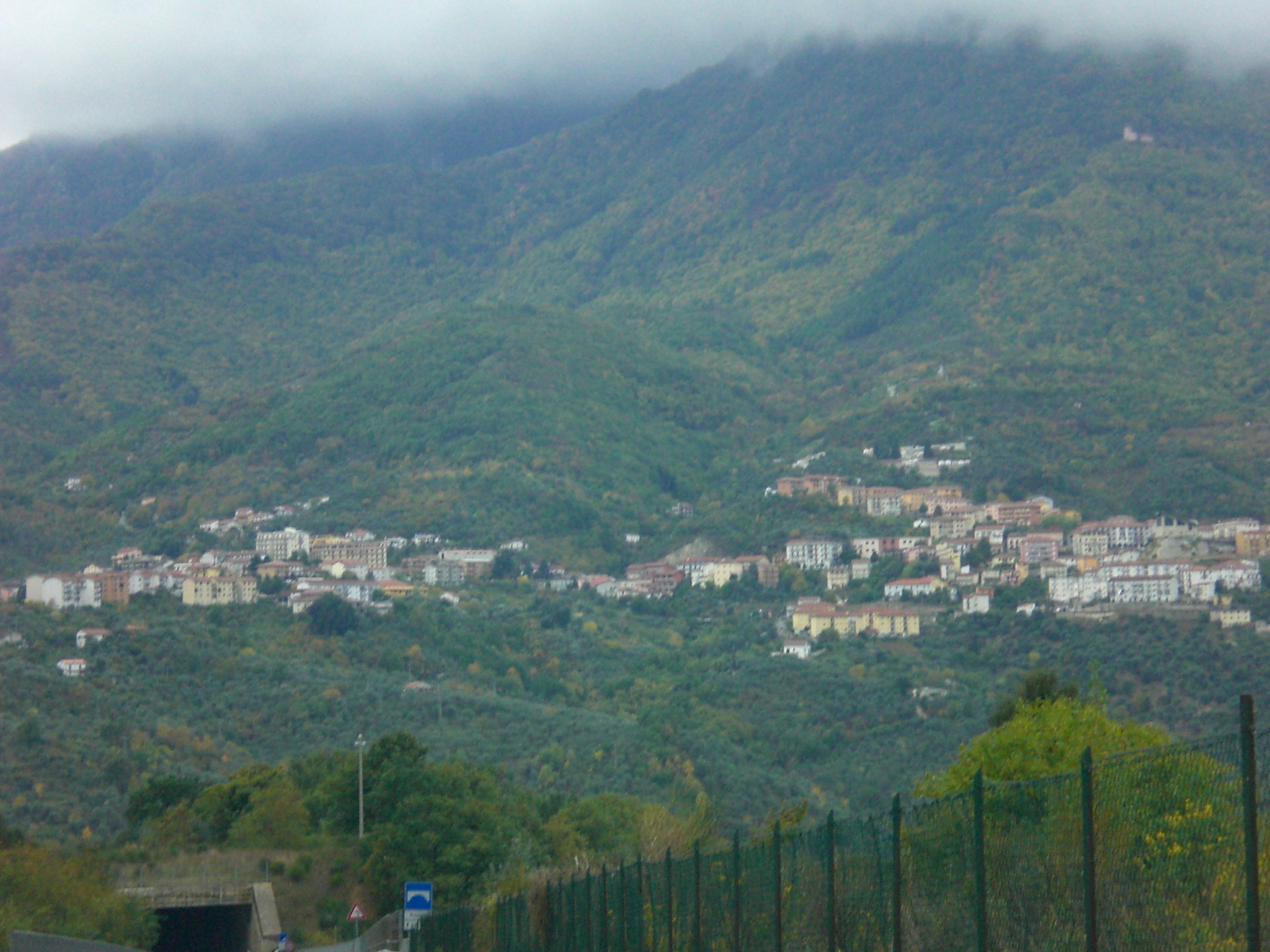 Calabritto landscape.